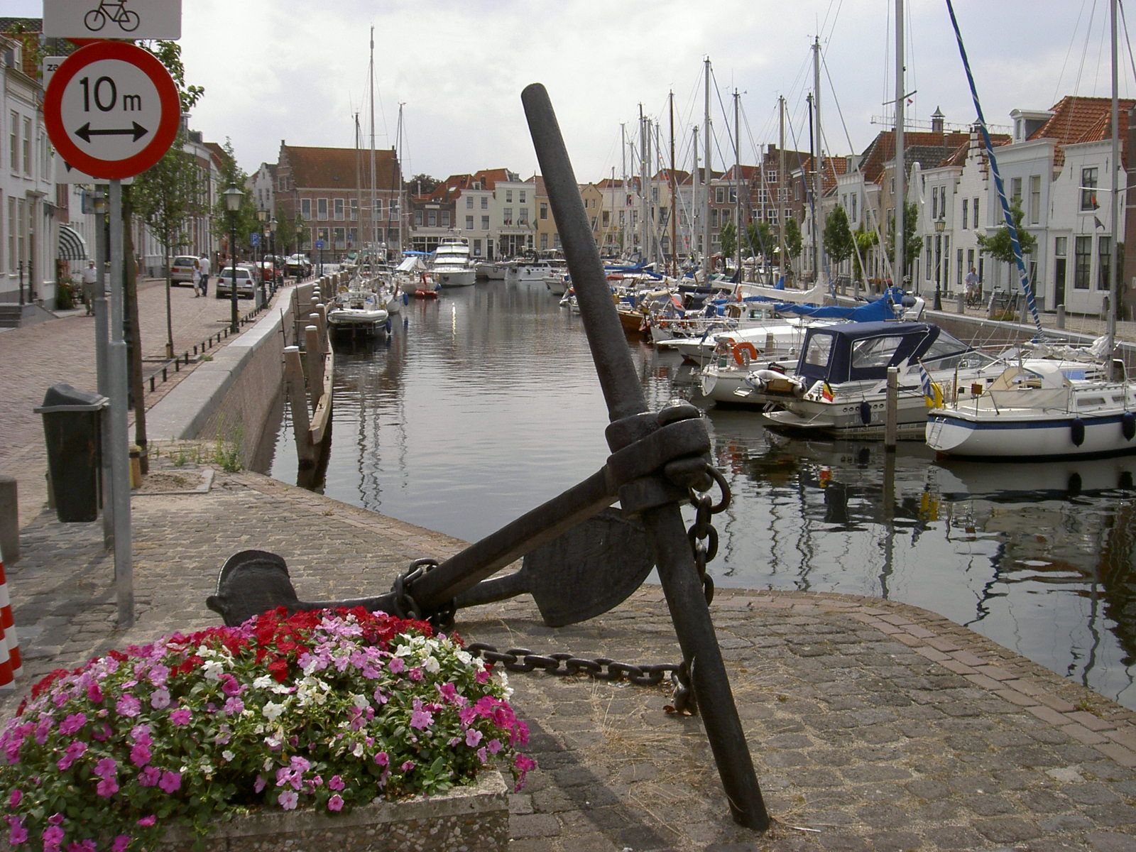 habour Goes Summer 2003